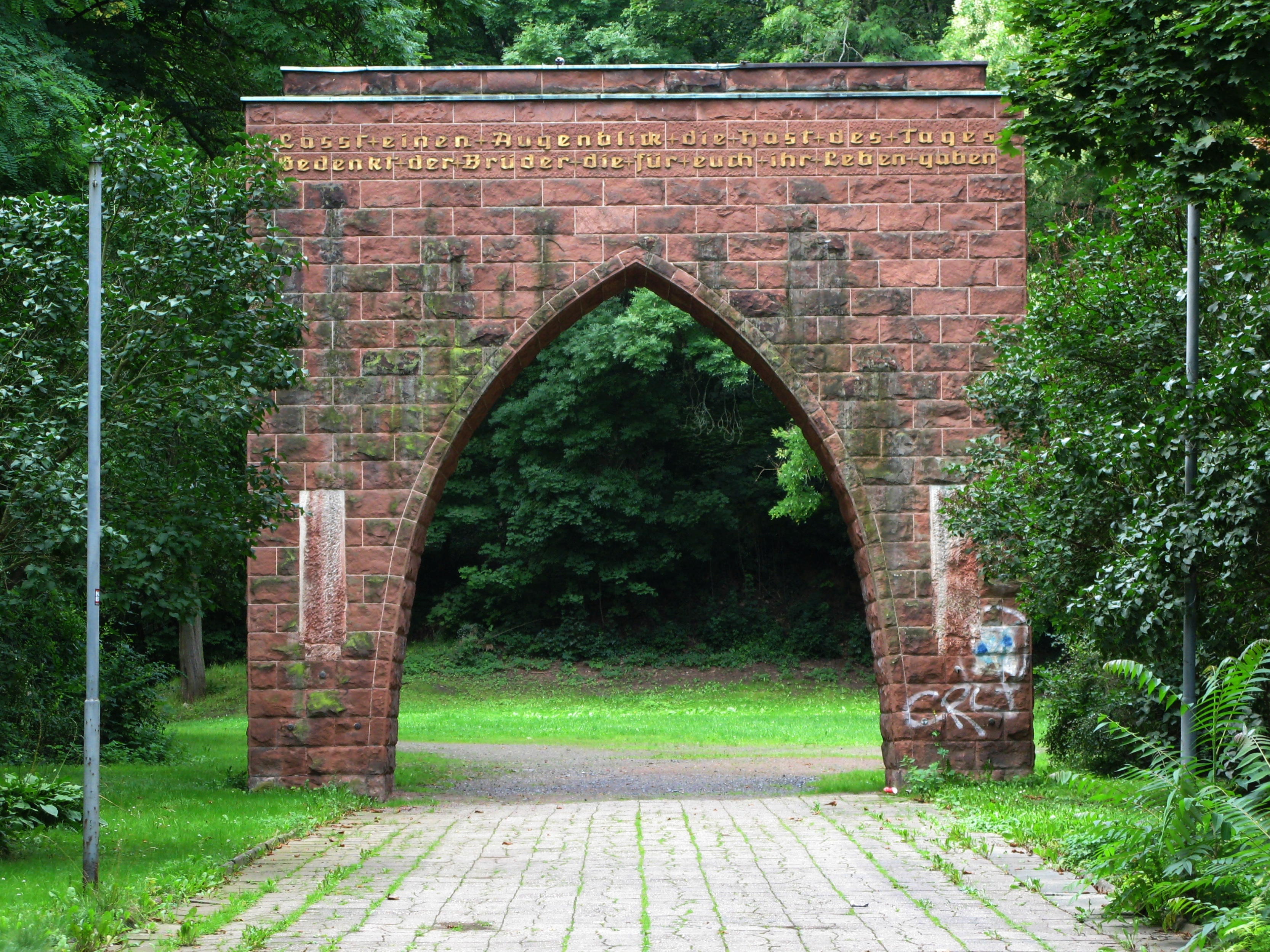 Eisleben, Stadtpark: "Tor der Mahnung" for those killed in the First World War. Built 1929-1932. The design and the inscription come from the sculptor Richard Horn (1898-1989) from Halle (Saale).